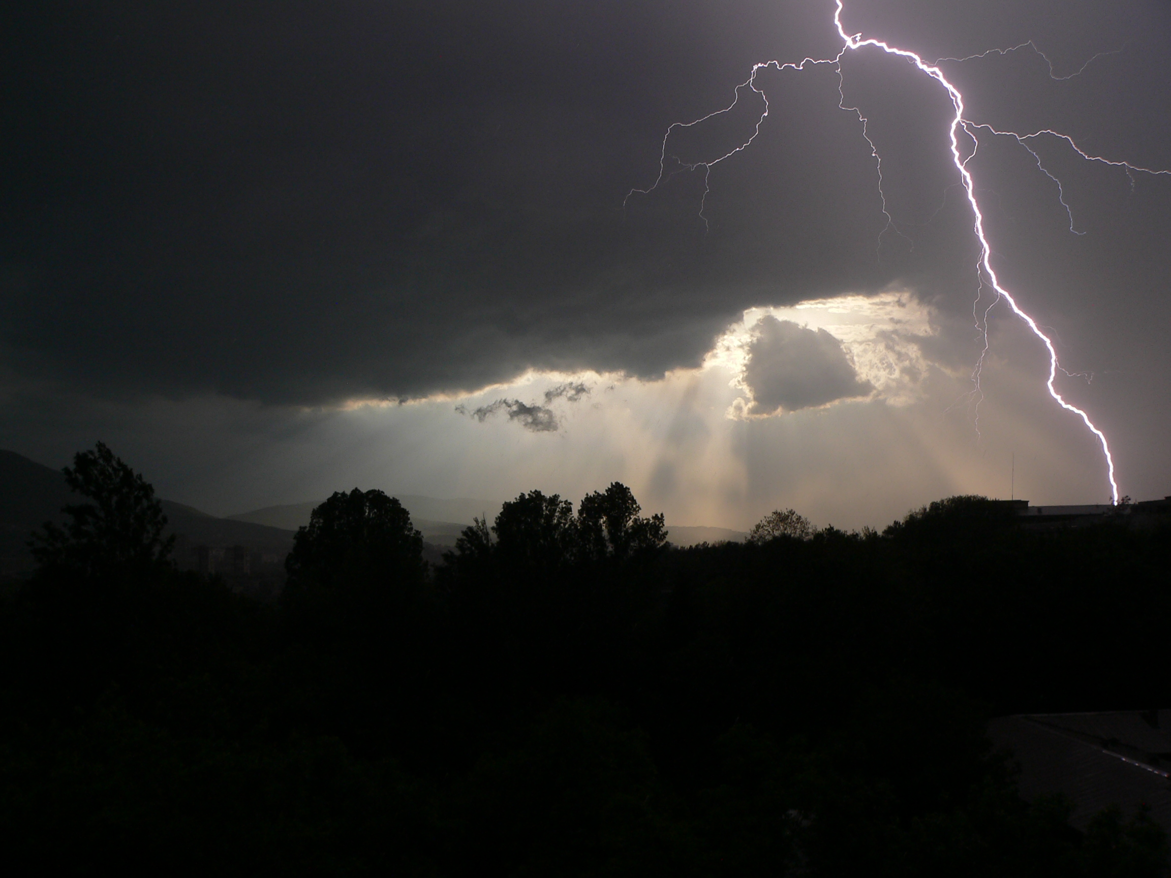 Lightning over Sofia